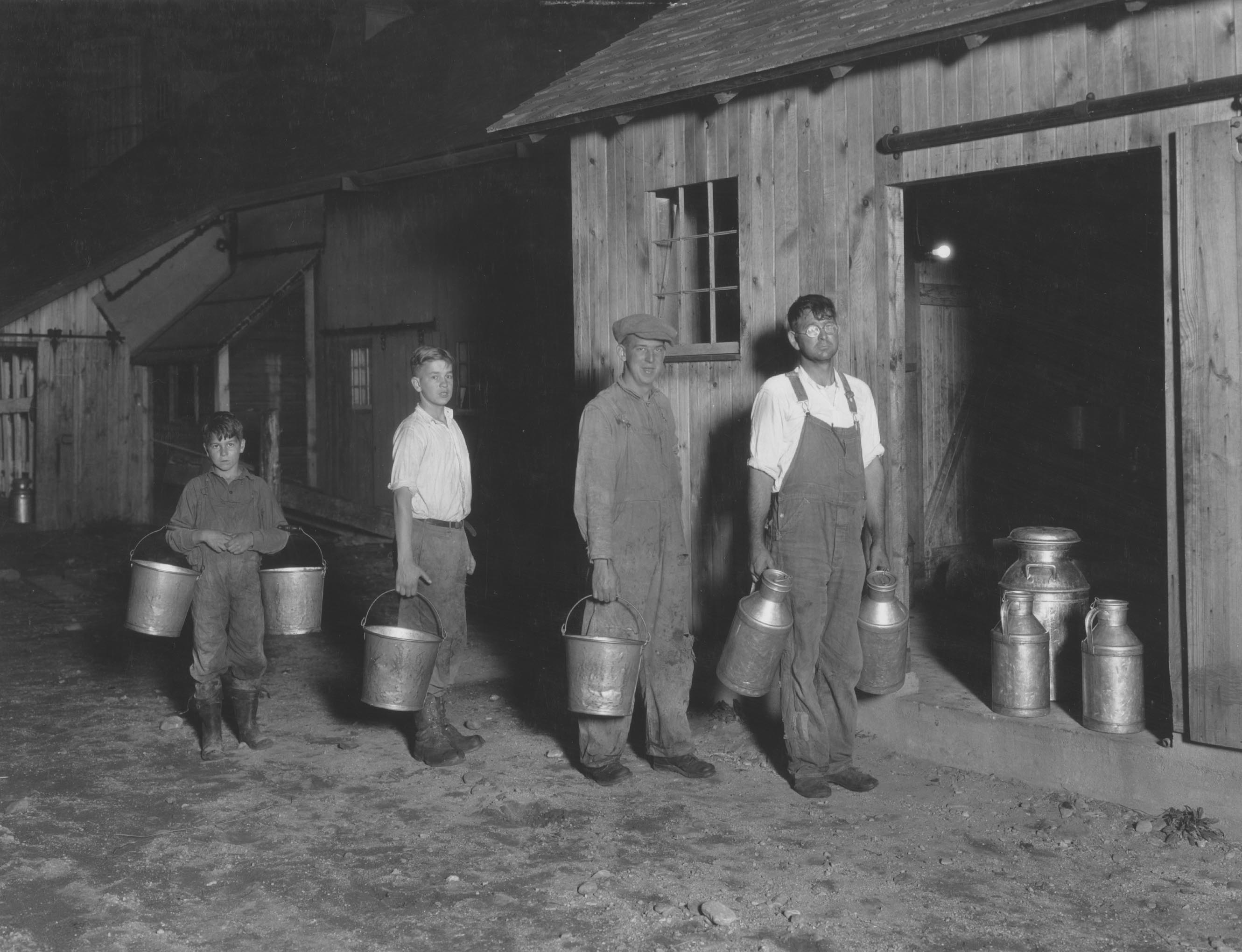 Mr. Reuben Manning, Arnold, Nathaniel and Myron. The three boys are 4-H club members and own eight animals bewteen them. in New London County, CT, October 7-13, 1928.